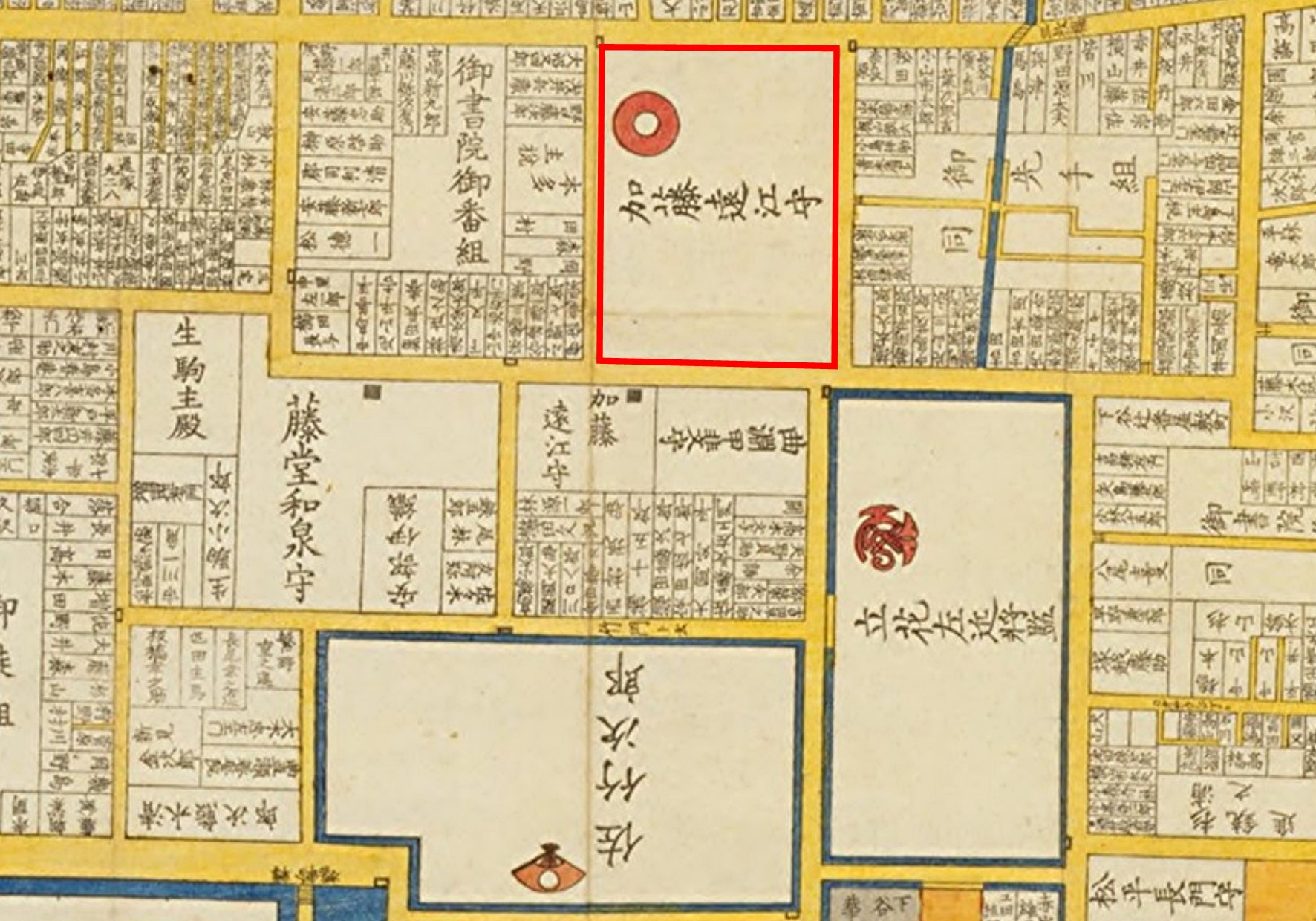 Residenz of Ozu-Kato at Edo